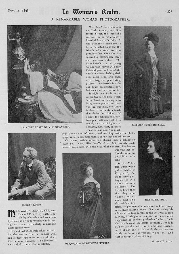 Article from the "Illustrated American", v. 24, no. 19 (1898 Nov. 11), p. 377, entitled "In Woman's Realm: a remarkable woman photographer," by Marion Barton, showing five photographs taken by Zaida Ben-Yusuf. Left to right, from top left: A model, Zaida Ben-Yusuf (1869-1933), Miss Schroeder, one of Zaida Ben-Yusuf's sitters, Gustav Kobbé (1857-1918).